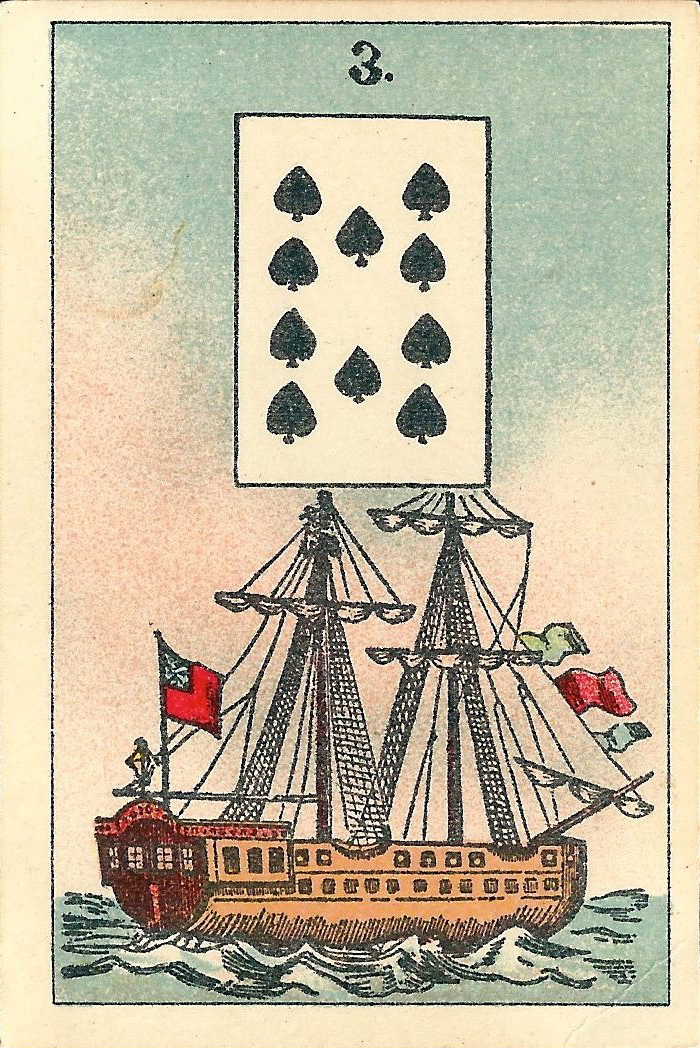 A Lenormand card from Germany, published circa 1890, based on a deck from 1854